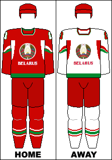 The home and away jerseys of the Belarusian national ice hockey team with the national emblem in the middle.